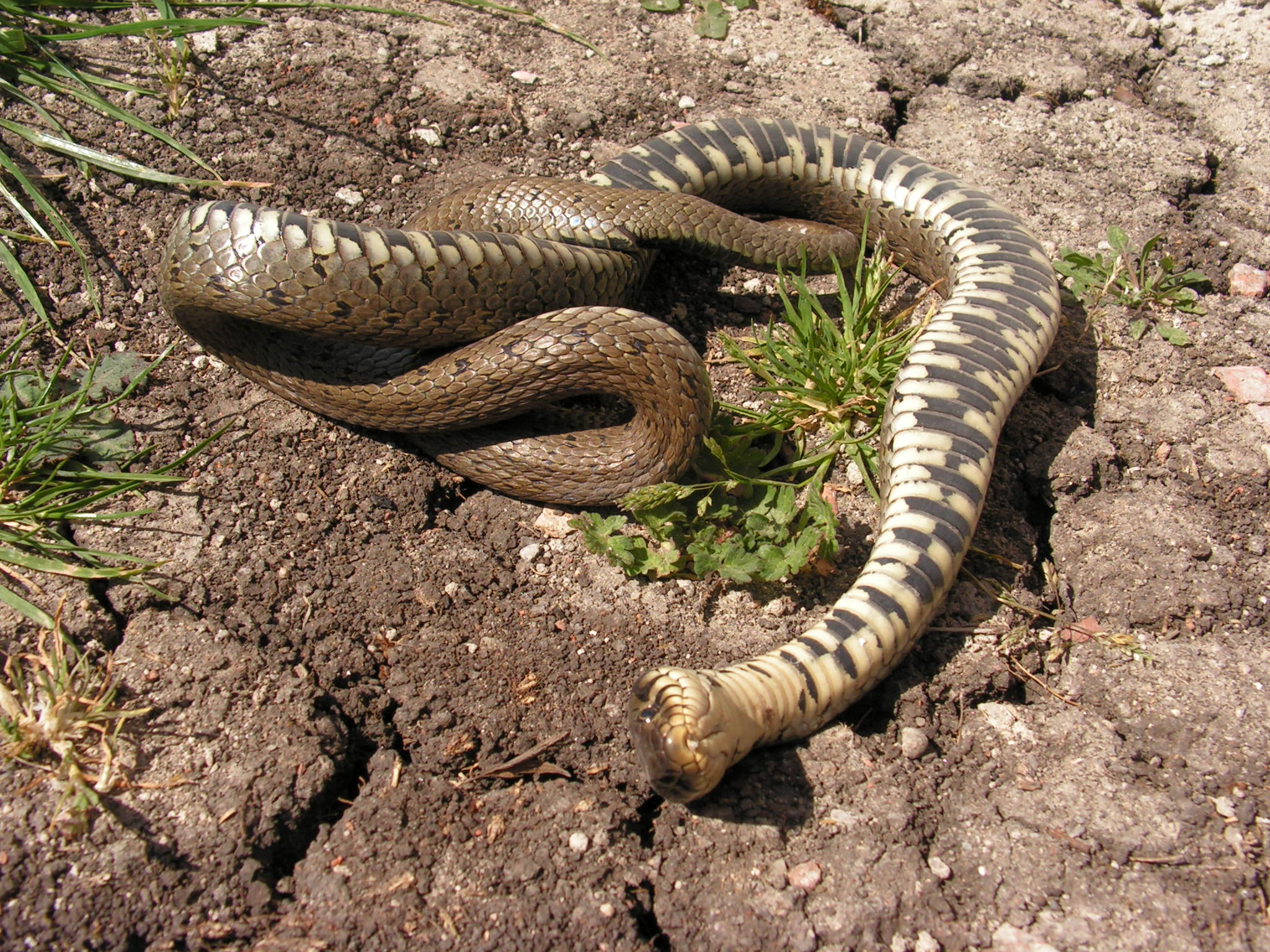 Natrix natrix - Grass snake playing dead after being caught.